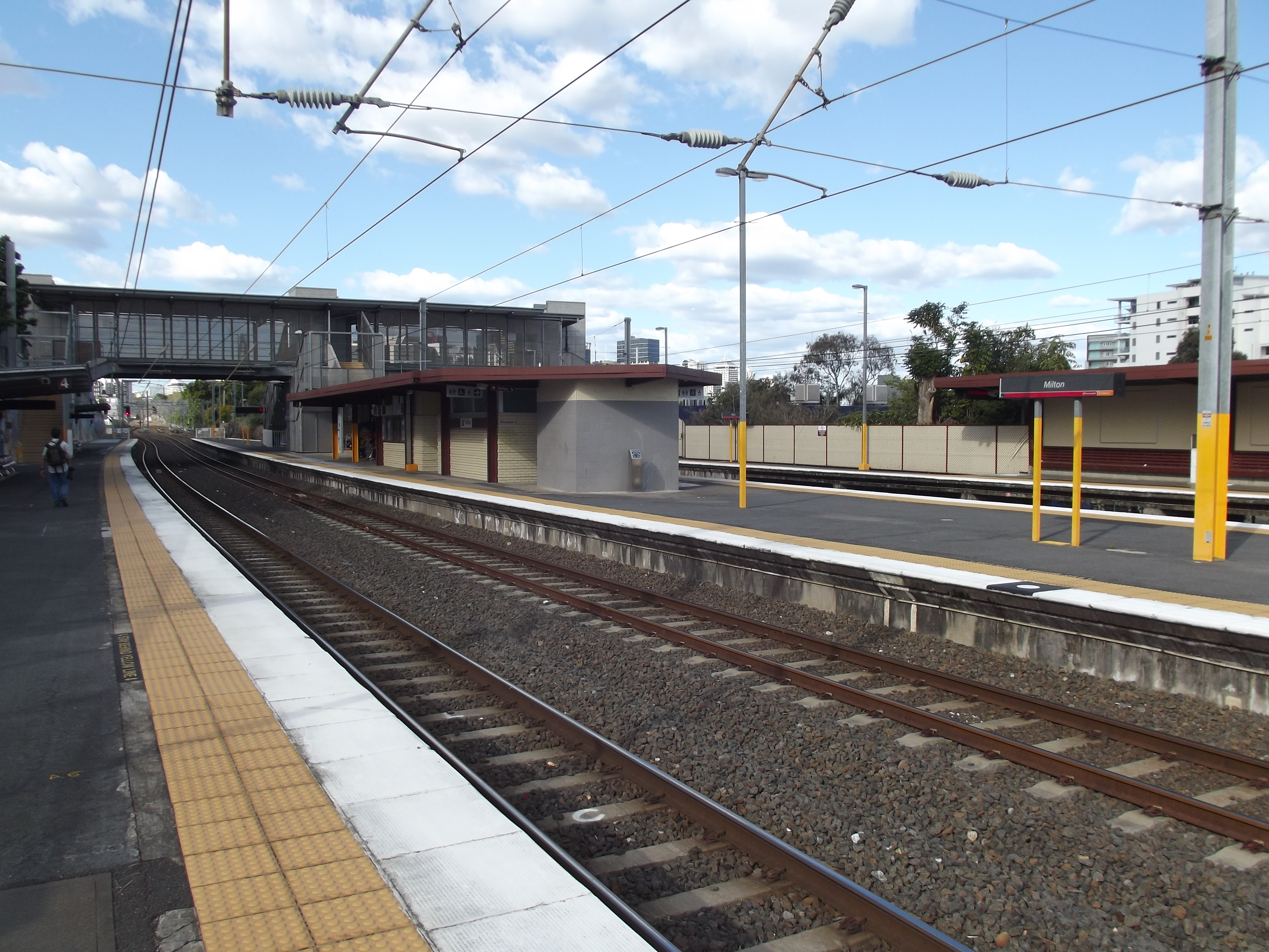 Milton railway station, on the Ipswich/Richlands line.